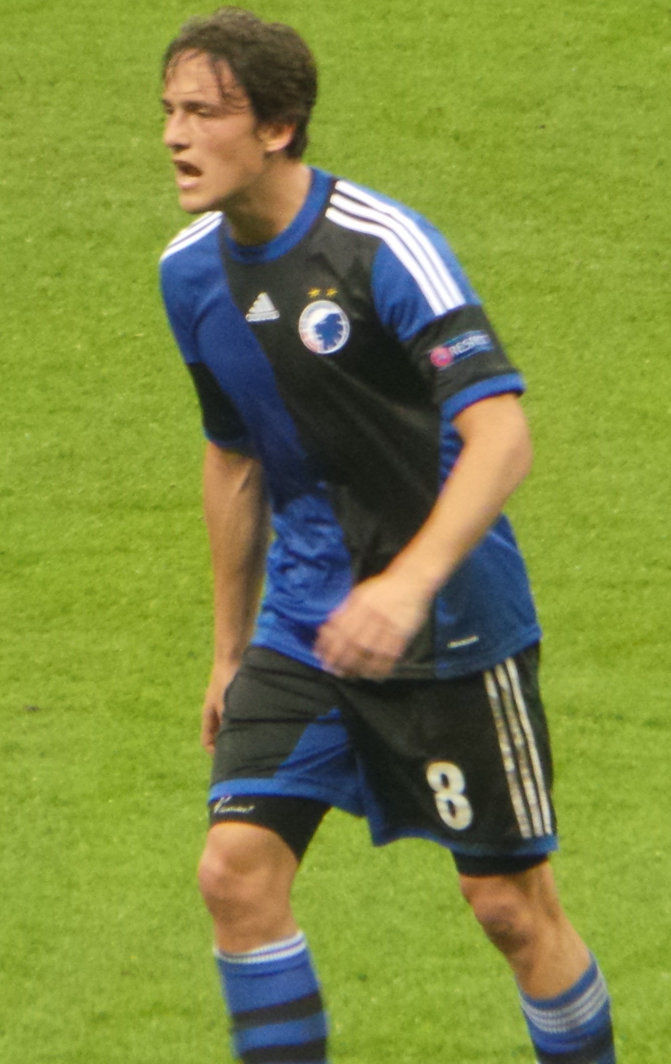 Thomas Delaney